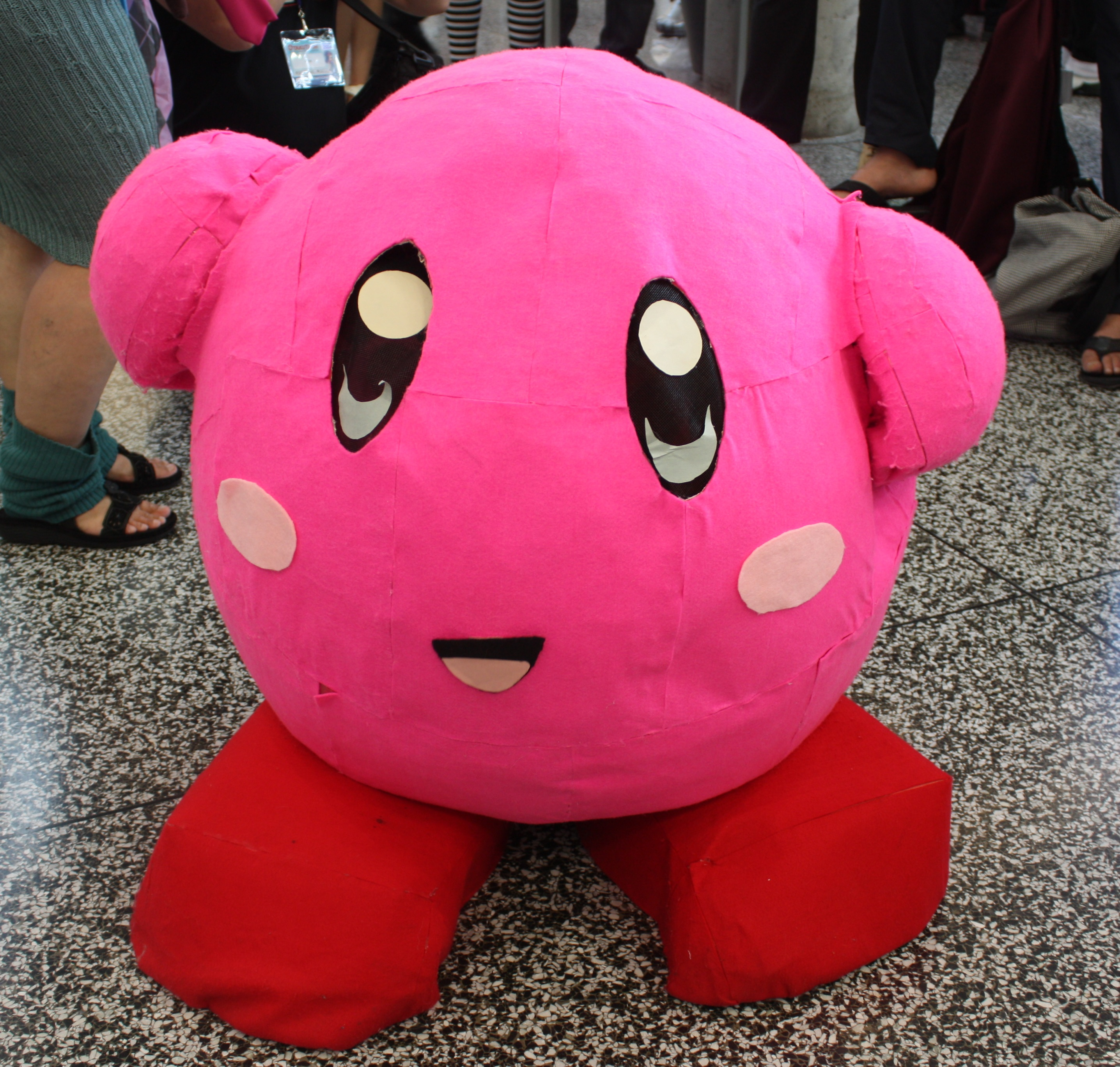 Cosplay of Kirby at Otakuthon 2014.